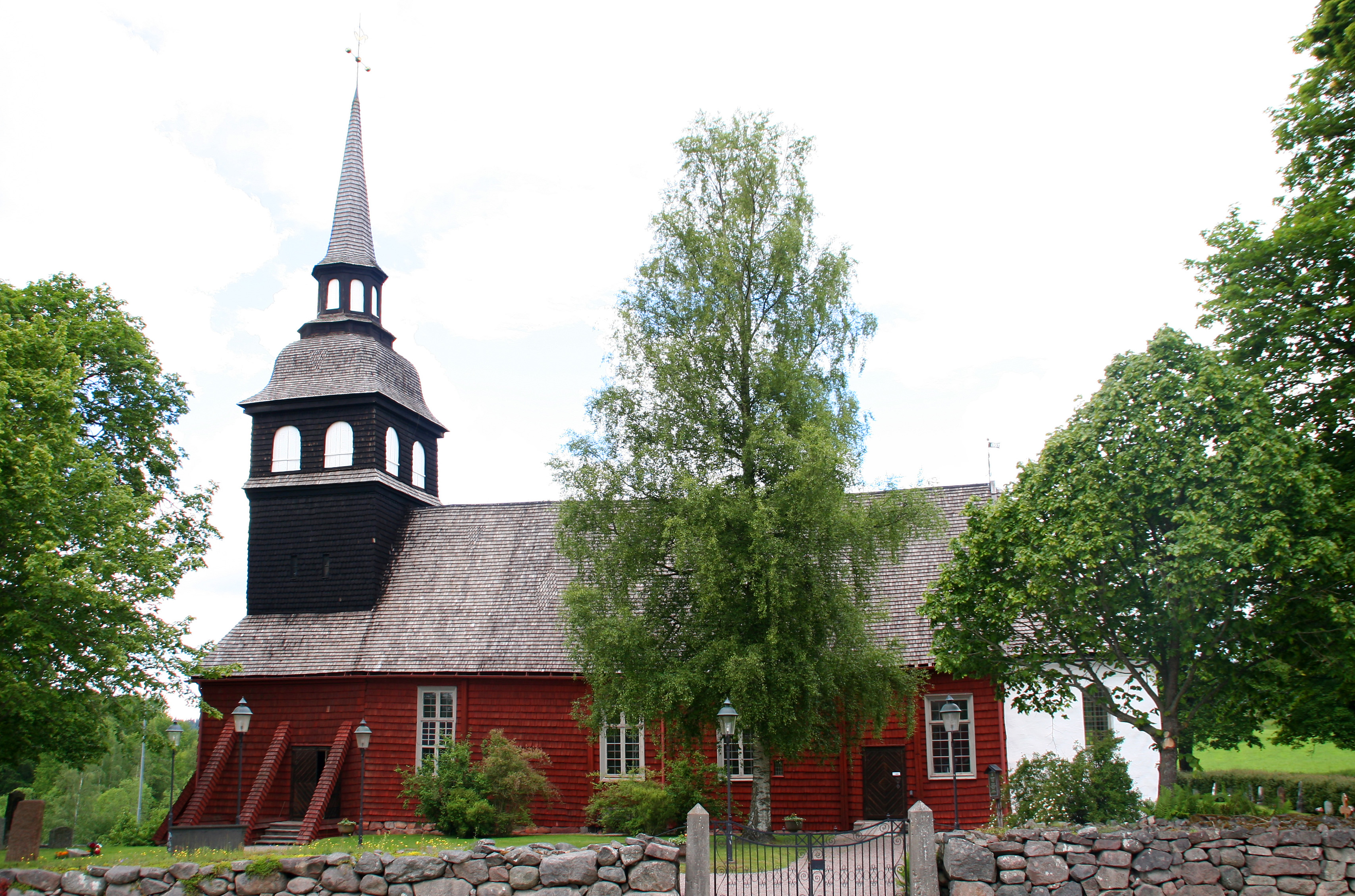 Vireda Church.